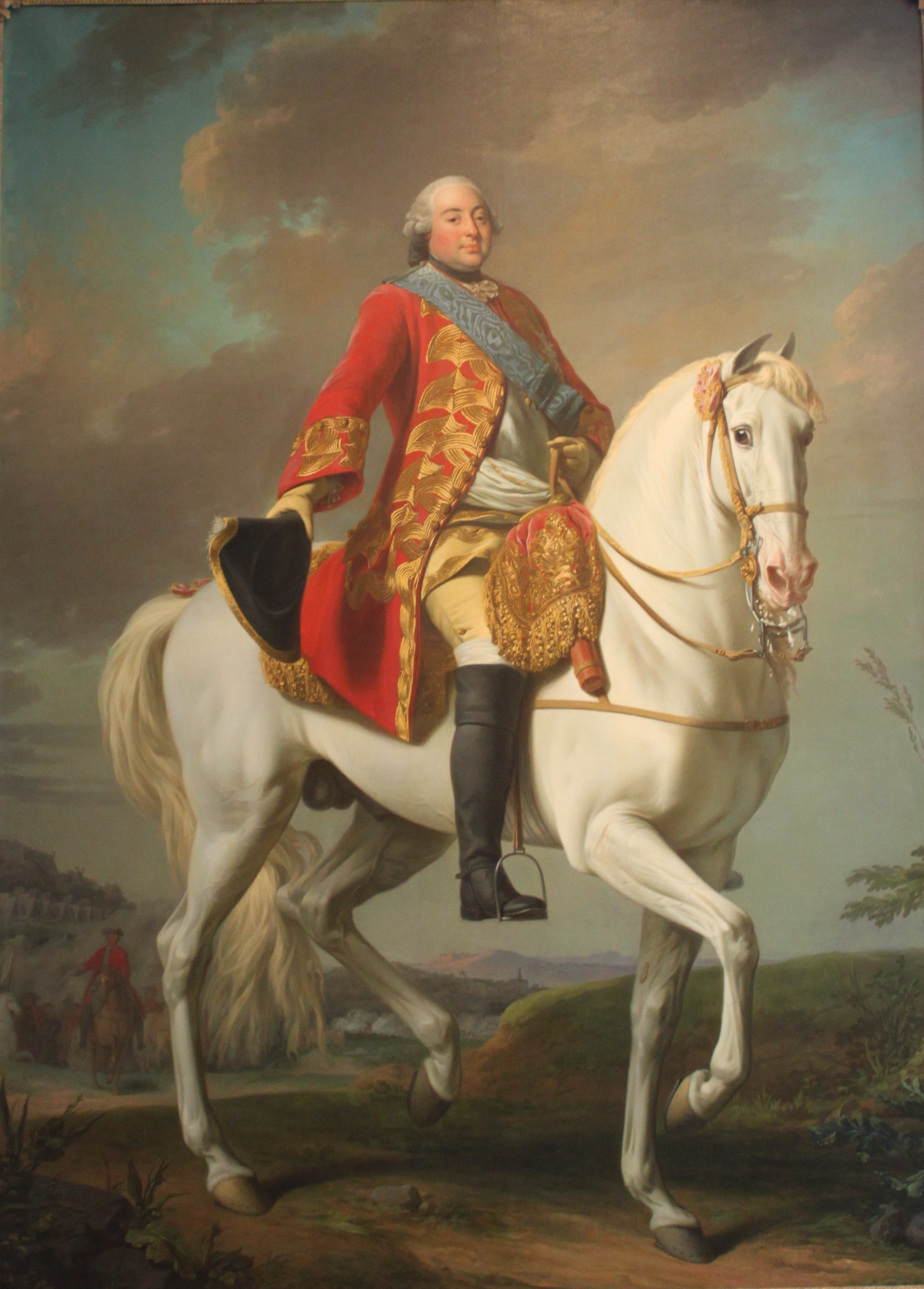 Louis-Philippe, Duc D'Orléans, Saluting His Army on the Battlefield